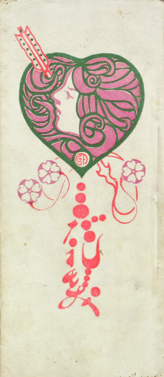 Cover of Akiko Yosano 'Midare-gami'(Disordered hair)